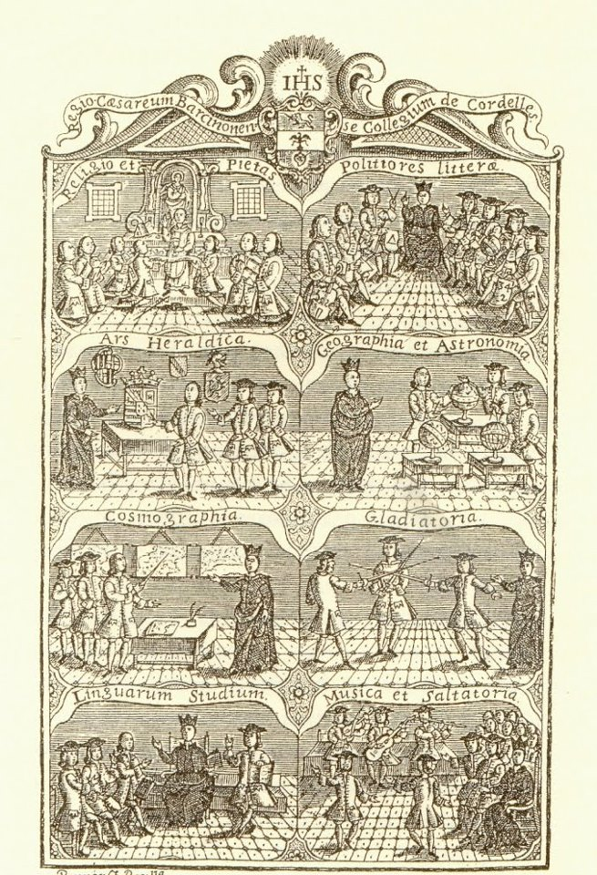 Engraving representing ceremony of the Cordelles school containing the main subjects were taught in 1757